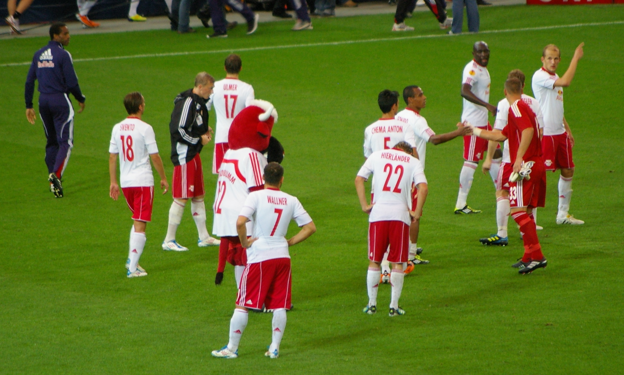 Euro League Qualifikation gegen Liepajas Metalurgs(21.7.2011)